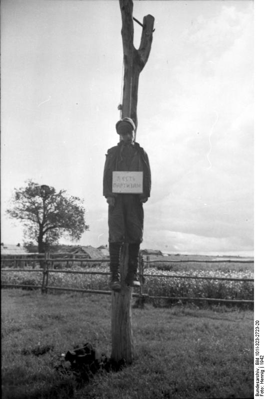 Soviet Union. A partisan hanged at a bare tree trunk. The Russian text on the sign reads as: "I am a partisan".